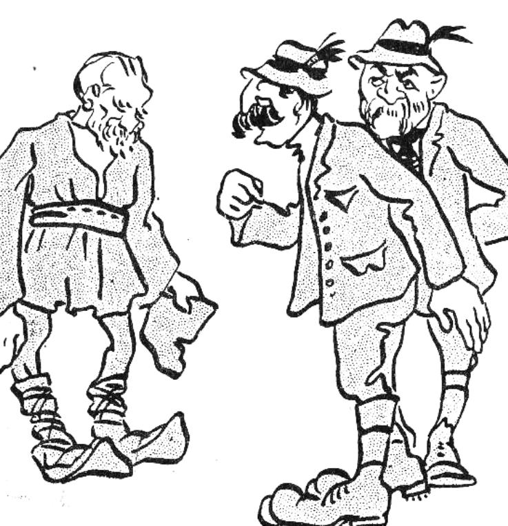 Cartoon published in Furnica magazine. The figures portrayed on the left are two politicians of the Romanian Kingdom, Nicolae Fleva and Take Ionescu. The cartoon is prompted by news that the two were vacationing together in the city of Braşov, a popular hiking destination in Transylvania; in 1909, this meant crossing the border into Austria-Hungary. The cartoon shows the two meeting a Romanian nationalist culture hero, Gheorghe "Badea" Cârţan, who is surprised by the meeting. When asked what they are doing "in Braşov",Fleva and Ionescu reply that they are resupplying their stack of braşoave ("Braşov cakes", but also "thumping lies").